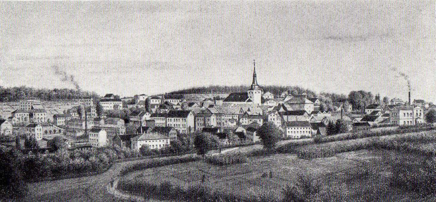 Lüdenscheid at about 1870